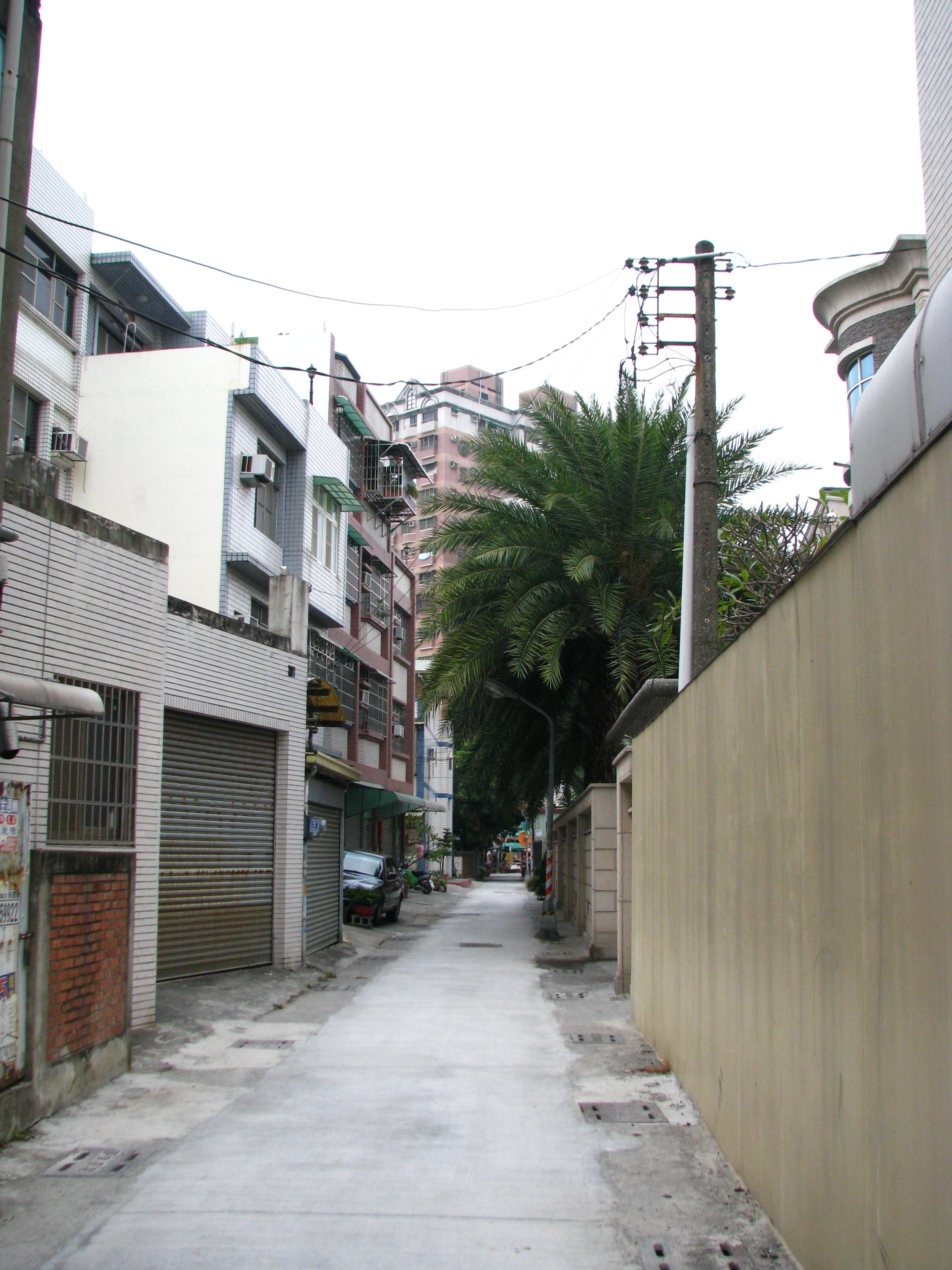 A old place name in Sanmin District, Kaohsiung, Taiwan.